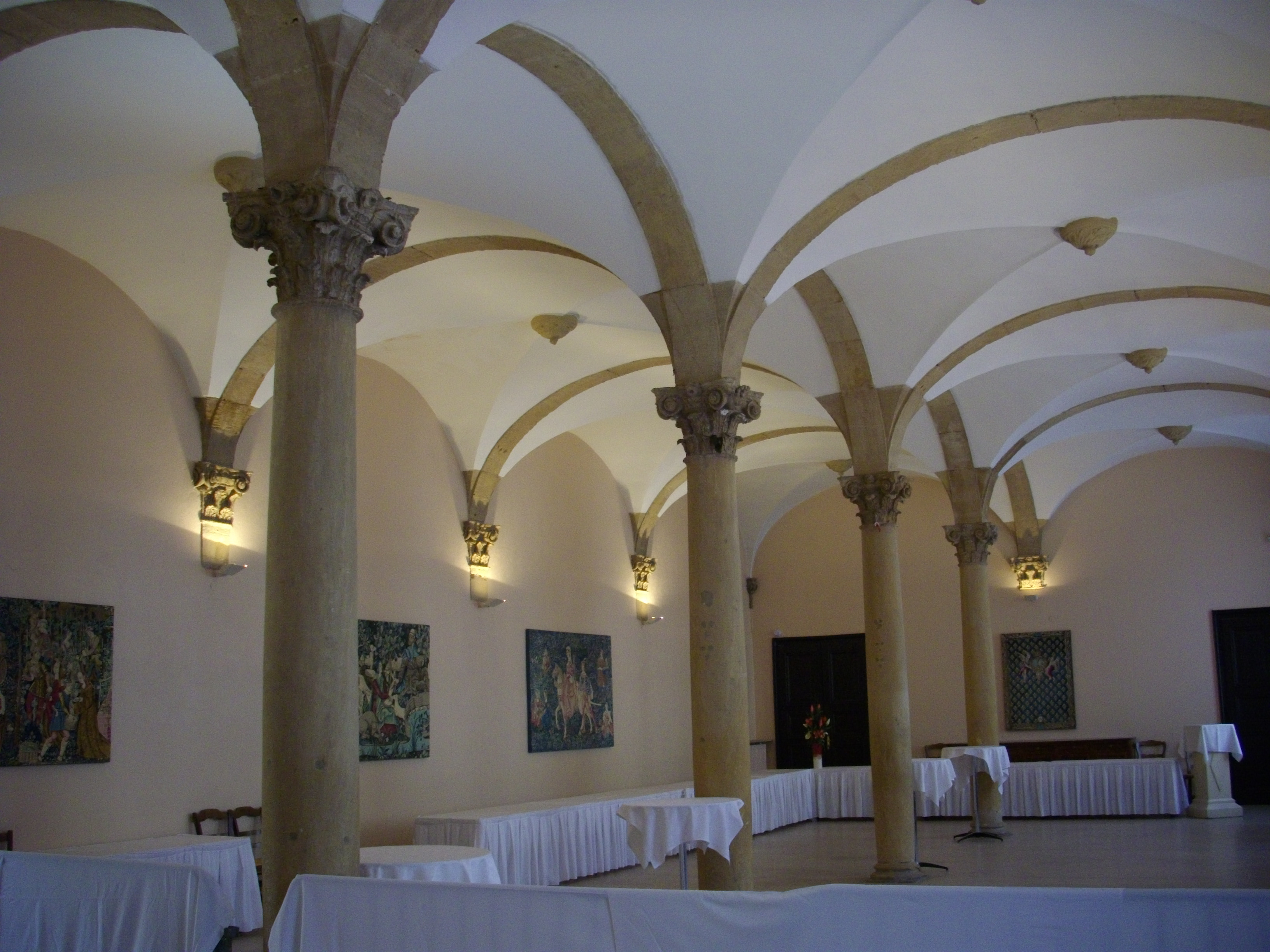 Saint Arnould abbey (present officers club) in Metz (France) : columns room (european heritage days 2010)